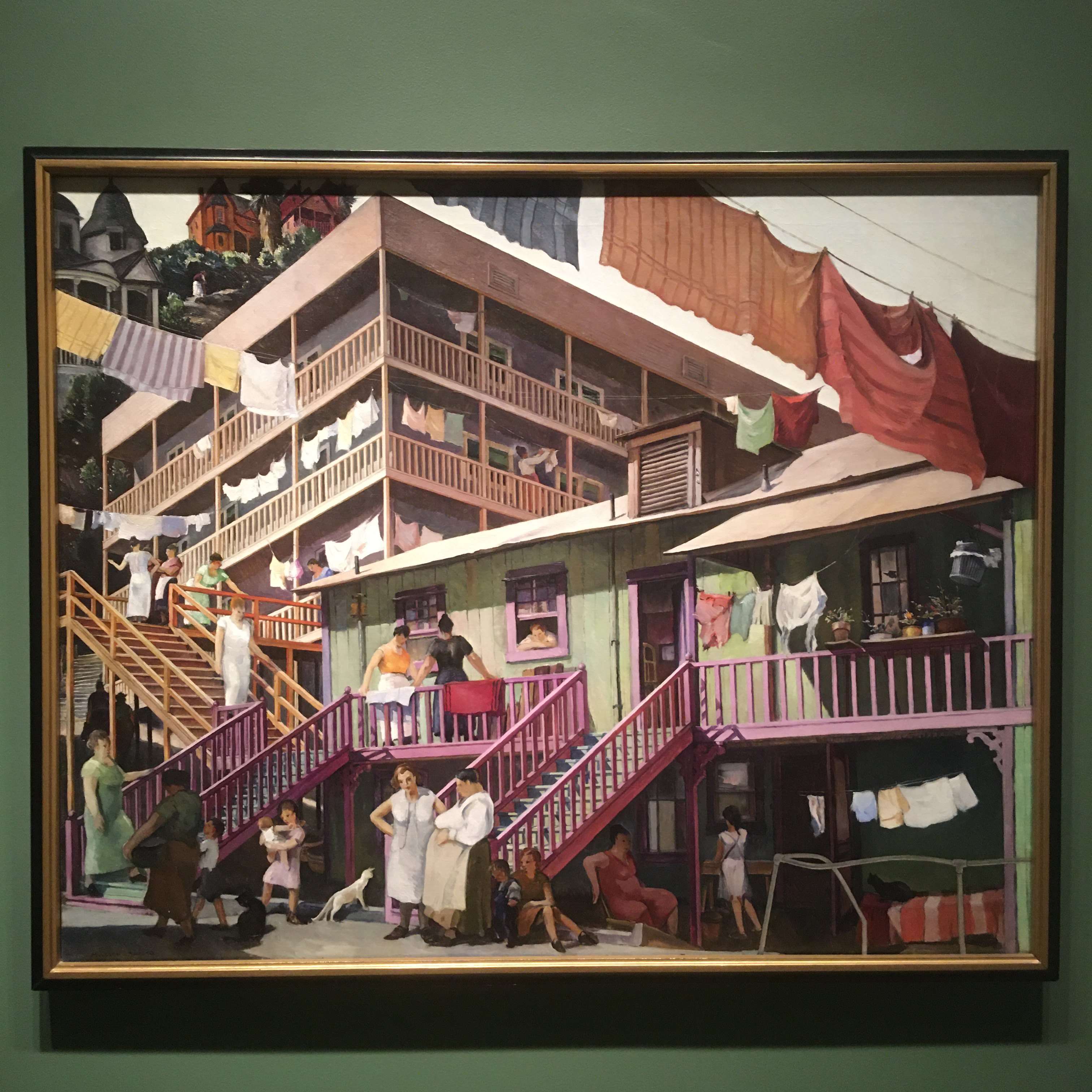 Tenement Flats by Millard Sheets, 1933-1934. Hangs in the Smithsonian American Art Museum.